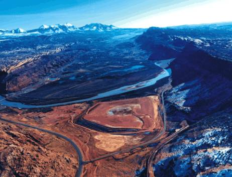 Aerial view, Atlas Site, Moah, Utah, prior to the relocation of the tailings pile